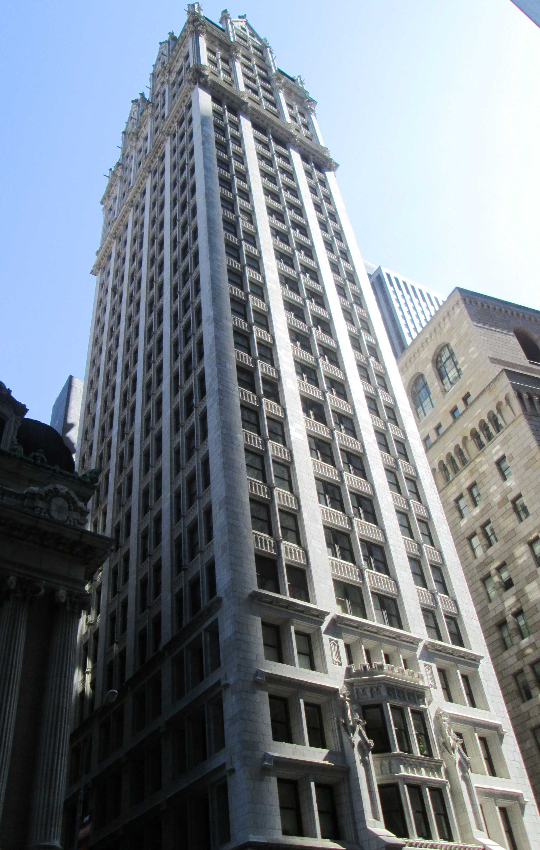 The Liberty Tower, formerly the Sinclair Oil Building, located at 55 Liberty Street at the corner of Nassau Street in the Financial District of Manhattan, New York City is a skyscraper built in 1909-10 as a commercial office building and designed by Chicago architect Henry Ives Cobb in the Gothic Revival style. In 1981 it was converted into apartments by Joseph Pell Lombardi.